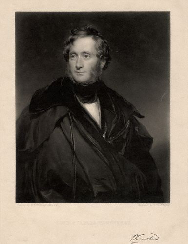 Lord Charles Townshend (1785–1853)